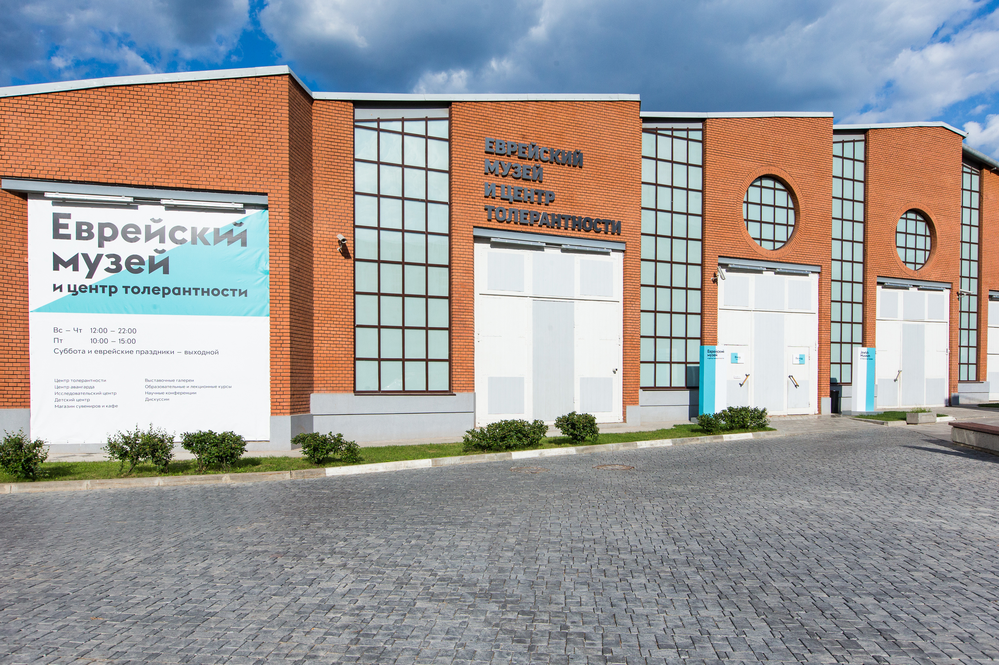 Jewish Museum and Tolerance Center, Moscow, Main Entrance